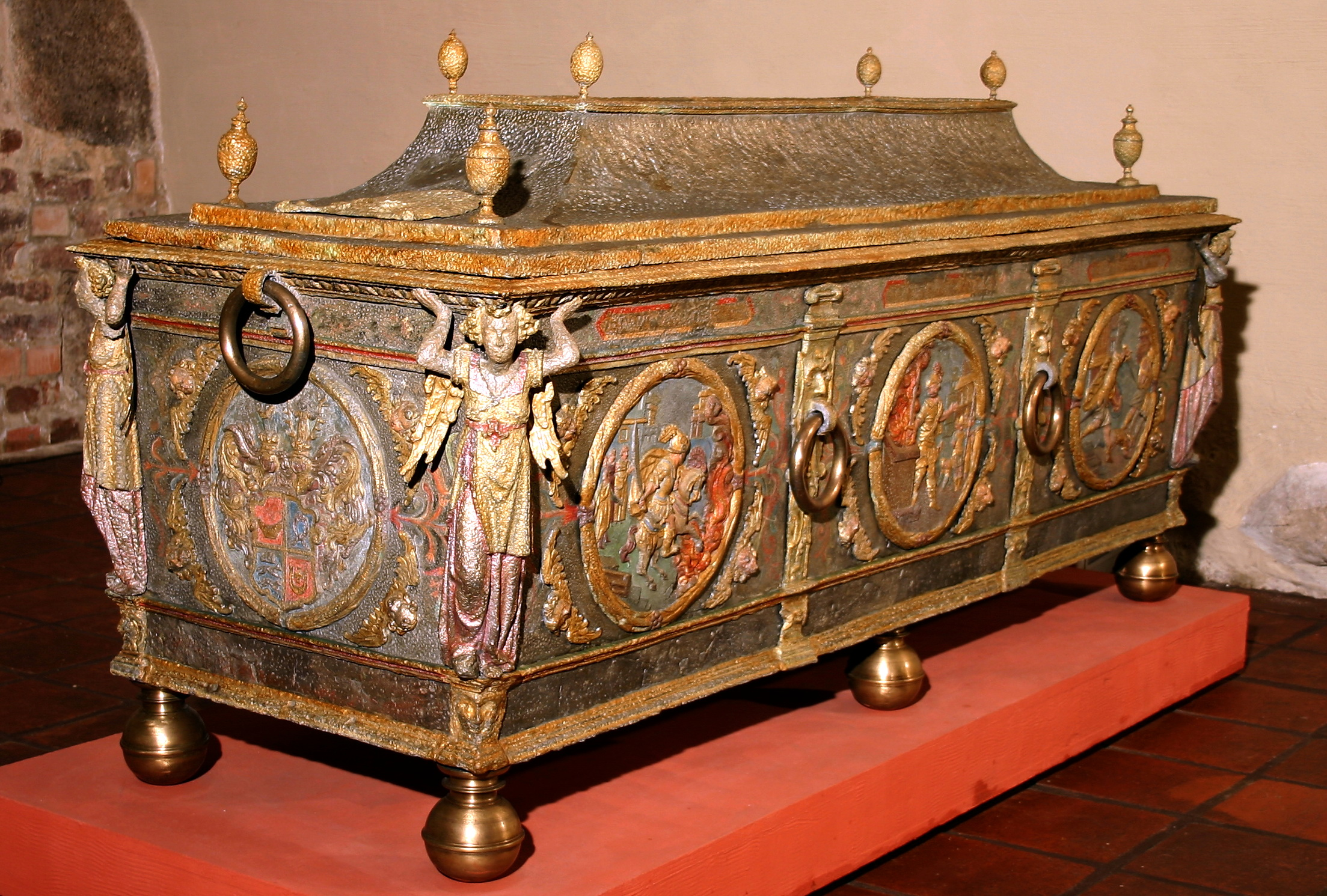 Sarcophagus of Piotr Opaliński in Museum Opaliński Castle, in Sieraków.